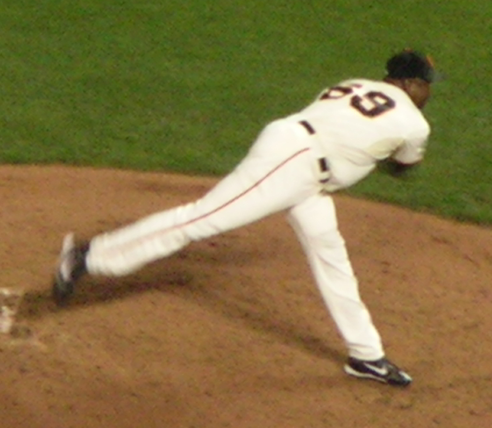 San Francisco Giants relief pitcher Guiellermo Mota at a home game against the Chicago Cubs. The Cubs won 8-6.